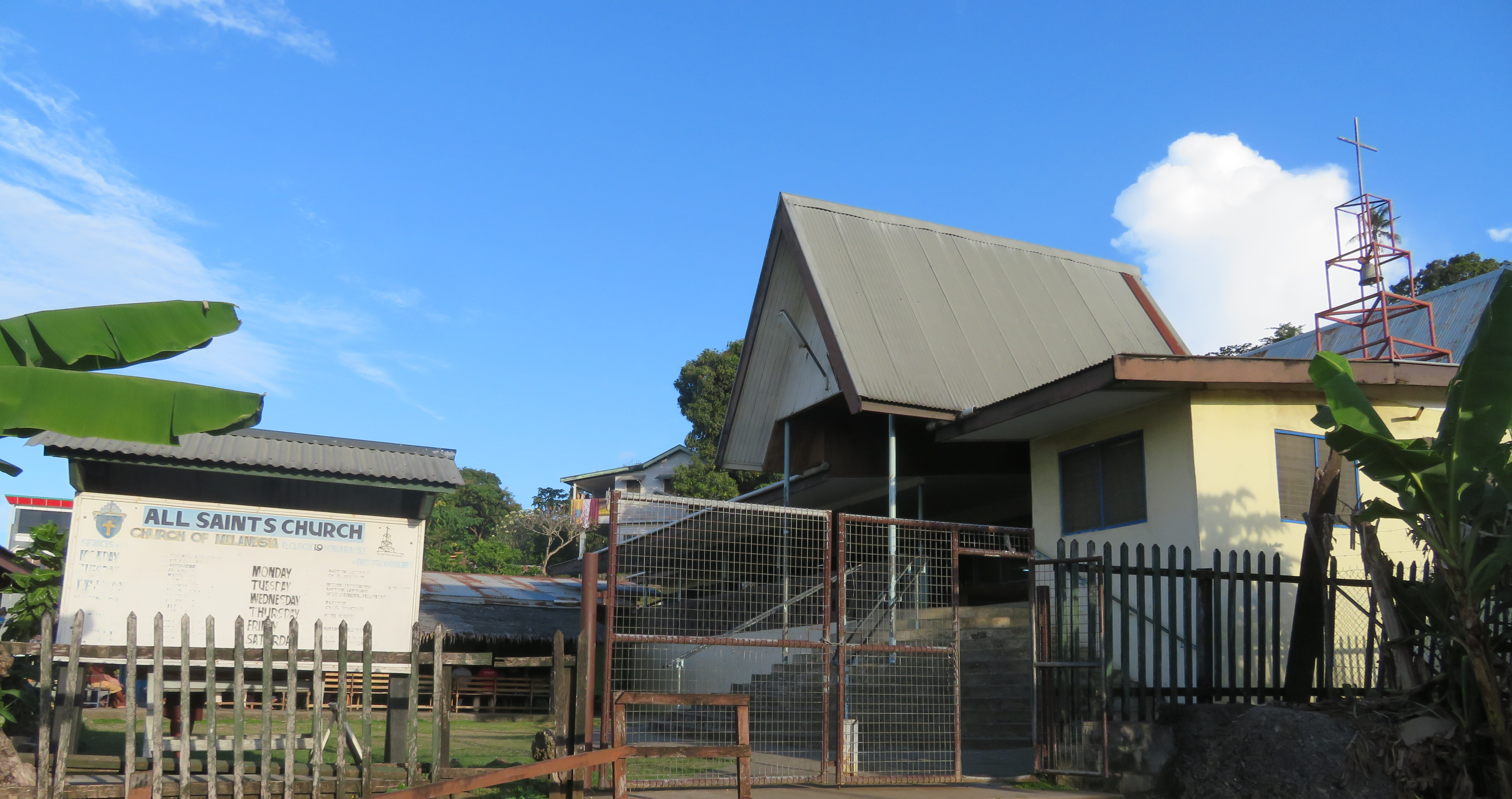 All Saints Anglican Church, Honiara, Solomon Islands